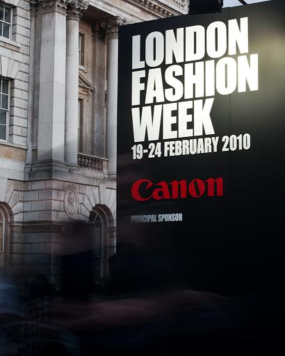 London Fashion Week February 2010